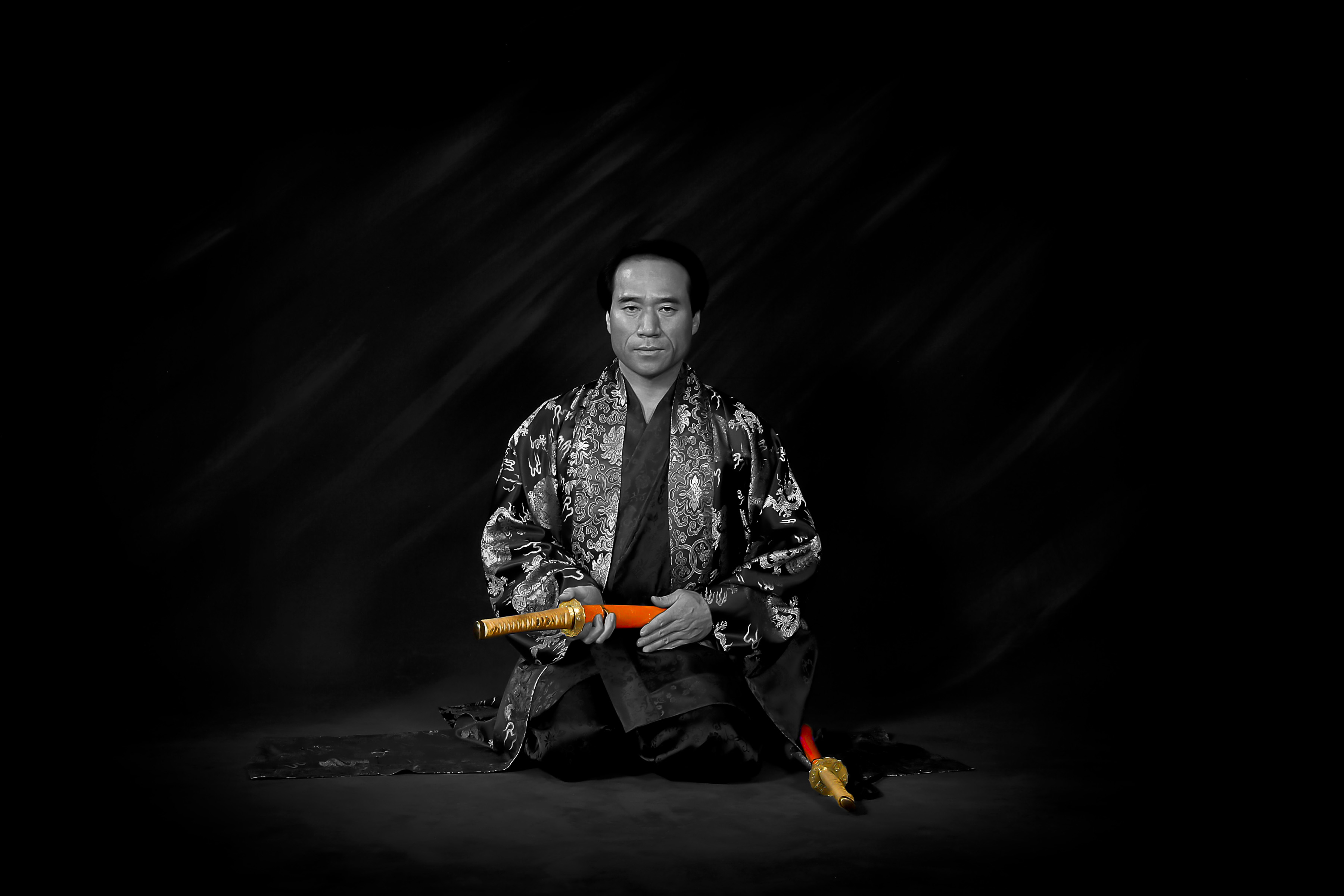 GM Bouksoo Joung